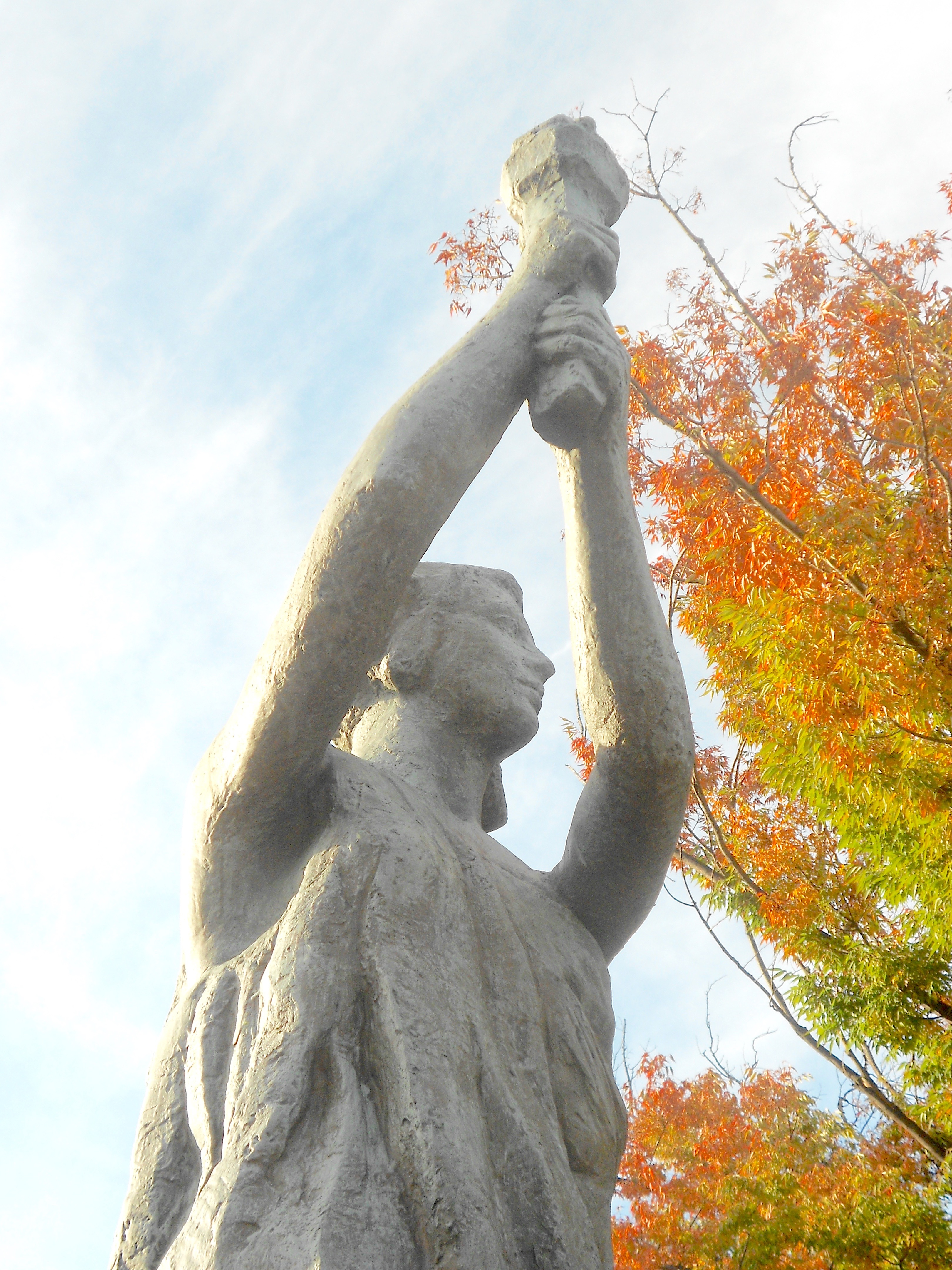 The "Goddess of Democracy" Statue in Washington DC, also known as the "Victims of Communism Memorial" by Thomas Marsh, based on the Tianamen Square "Goddess of Democracy" that was brutally destroyed by the PRC government. Thomas Marsh has very kindly given his commitment to keeping the image of the statue free to use and has licensed the image (the right to photograph the statue) "Creative Commons Attribution-ShareAlike 3.0" (unported) and GNU Free Documentation License (unversioned, with no invariant sections, front-cover texts, or back-cover texts) The This covers not only the Victims of Communism Memorial but also the statue in the Newseum in DC, the statue in Vancouver, BC, and the statue in Calgary, Alberta. Attribution should read "Statue by Thomas Marsh" or "Statue recreated by Thomas Marsh" or similar. Ticket contains permission from the sculptor. OTRS Wikimedia as ticket #2013050210011398.